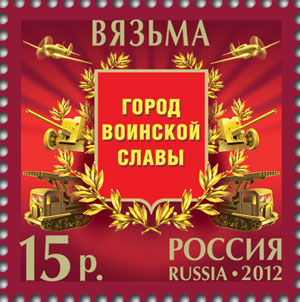 Cities of Military Glory 2